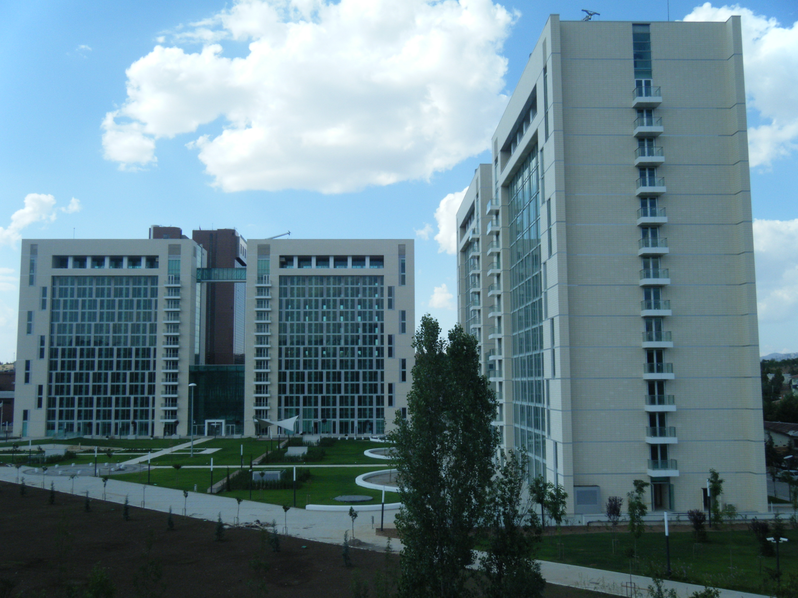 TOBB dormitory